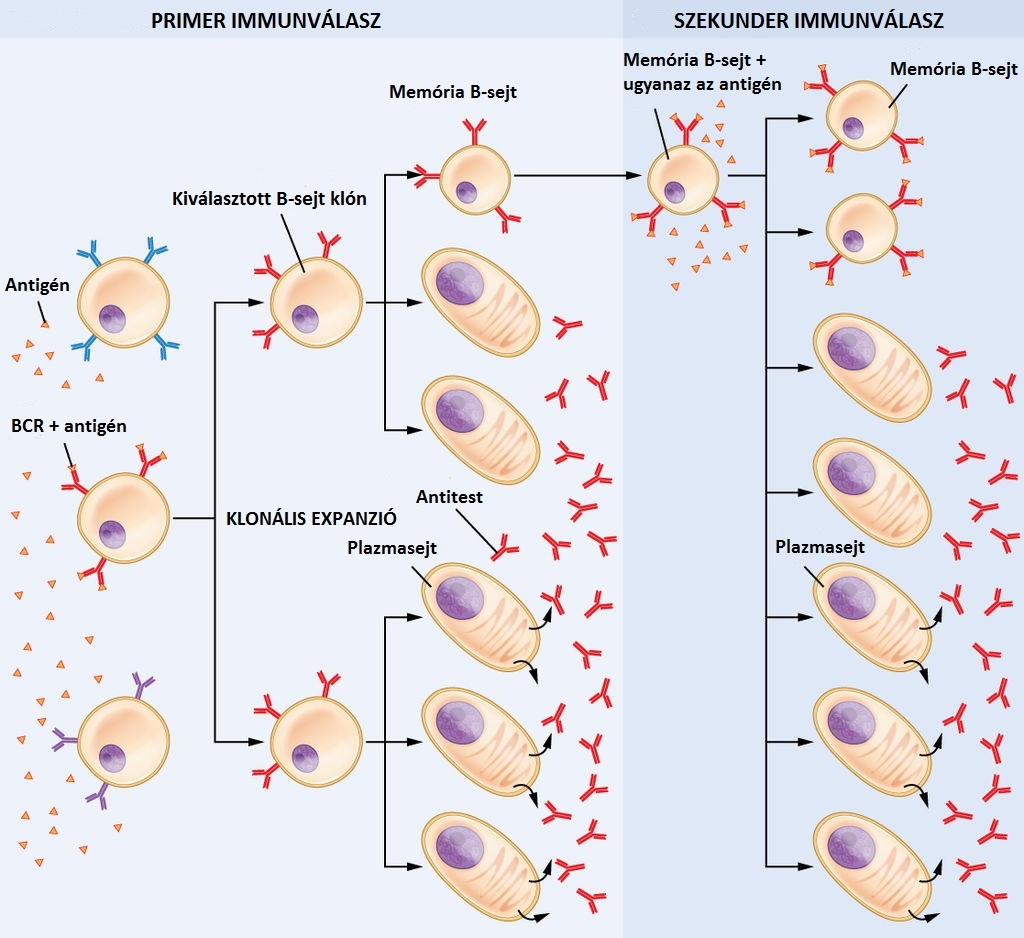 Illustration from Anatomy & Physiology, Connexions Web site. Jun 19, 2013. (Translated into Hungarian)